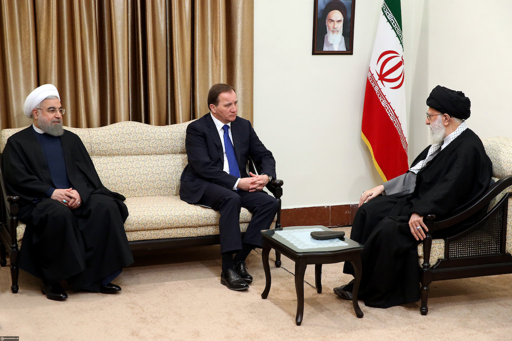 Swedish Prime Minister in meeting with Ali Khamenei, Supreme Leader of Iran, and Iranian President Hassan Rouhani accompanied him